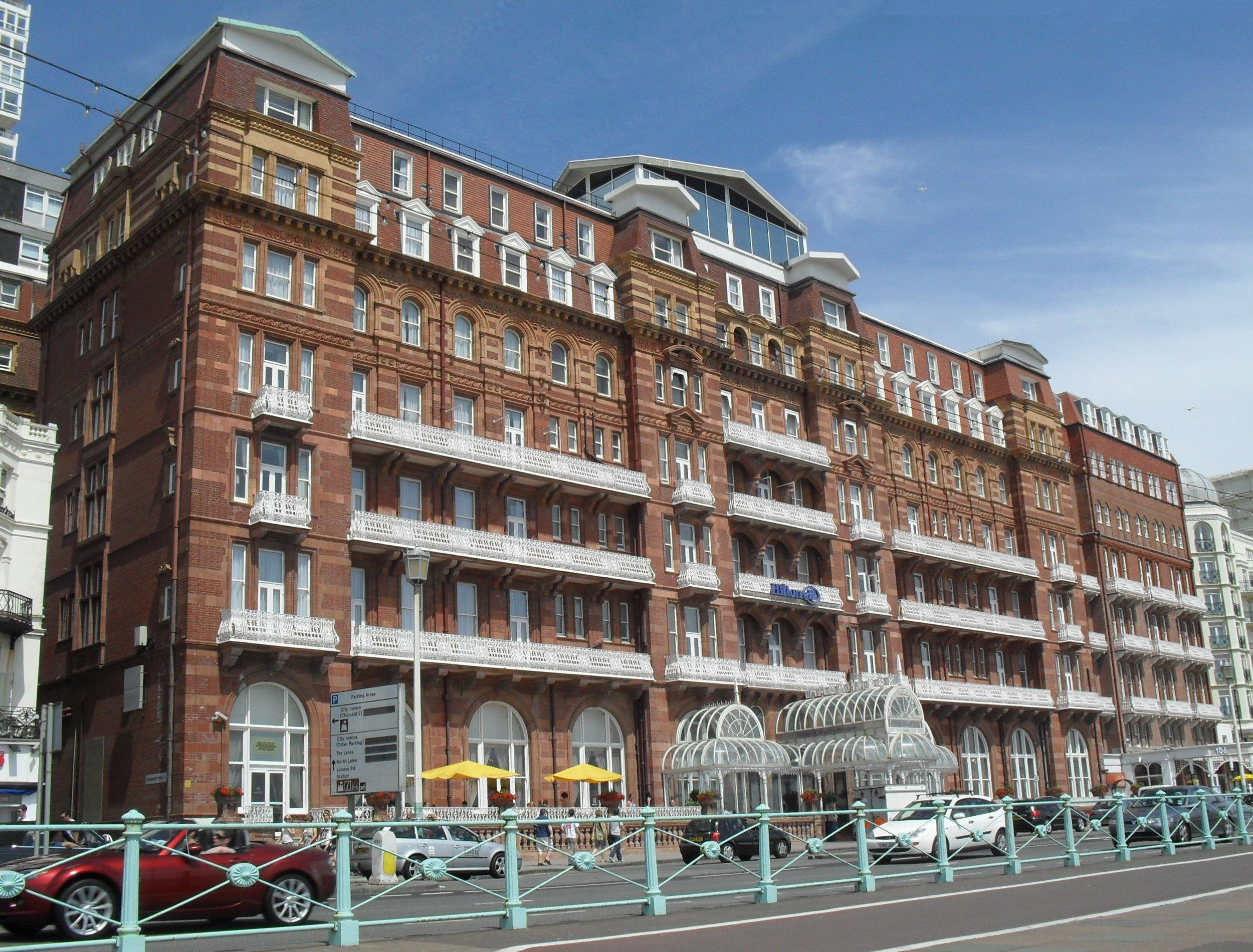 The Hilton Metropole Hotel, King's Road, Brighton, City of Brighton and Hove, England. A large hotel (the United Kingdom's largest provincial hotel when built in 1890) and conference centre on Brighton seafront. Alfred Waterhouse was the designer.